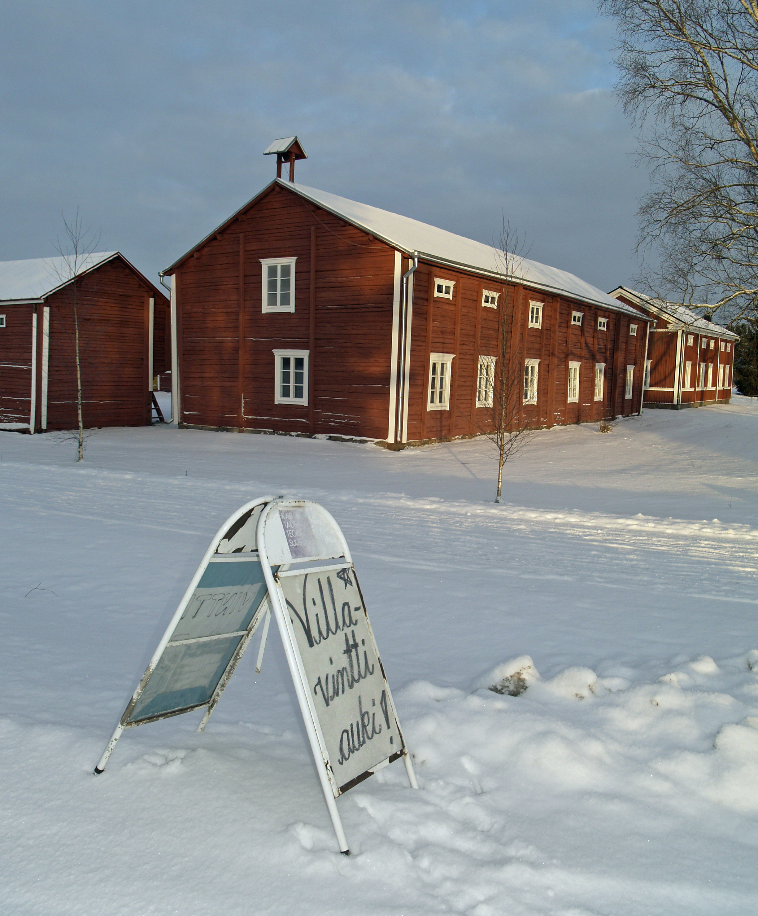 Advertising stand with traditional Ostrobothnian houses in the background, Isokyrö museum, Finland, Jan 2012.